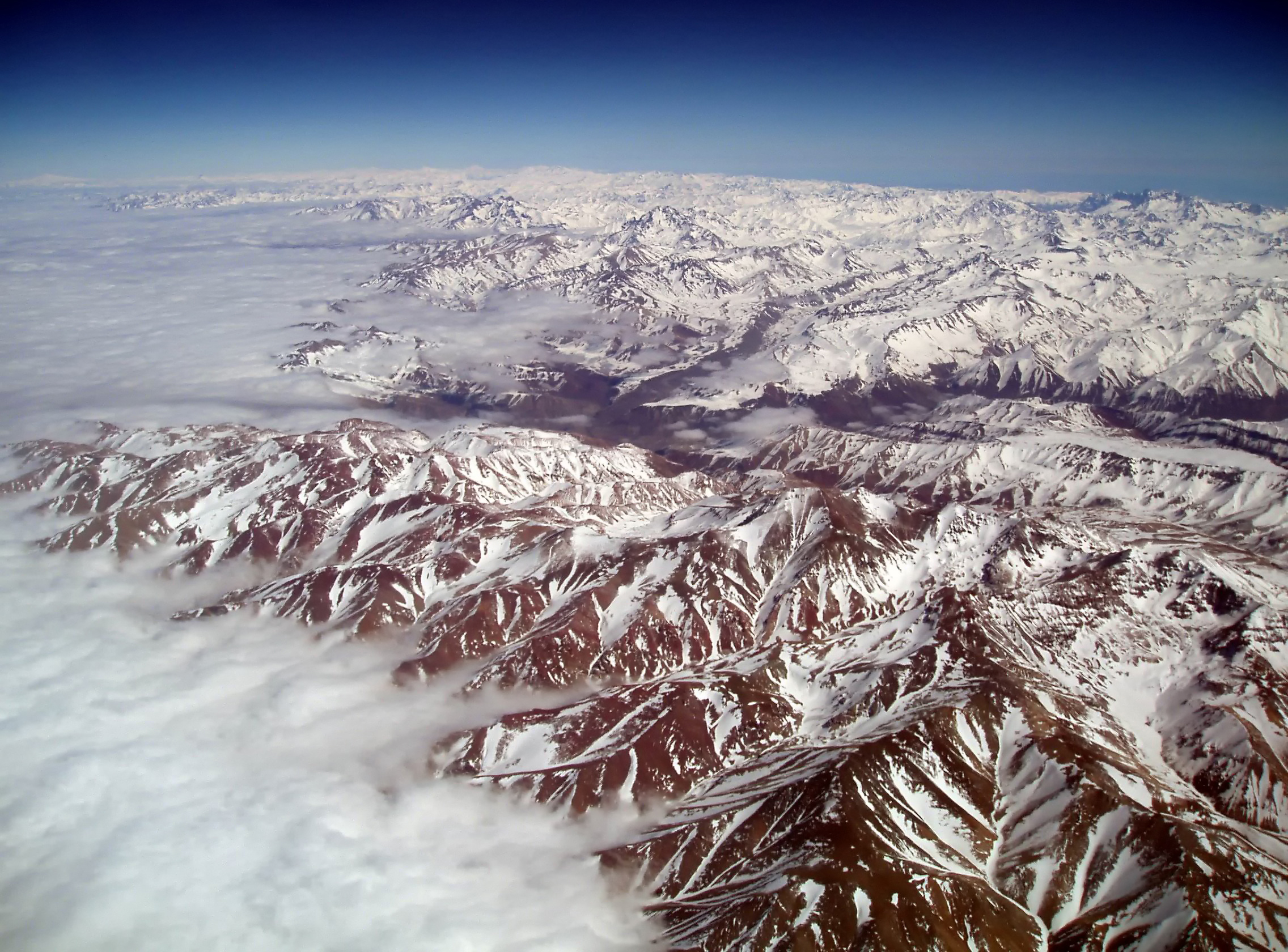 Andes